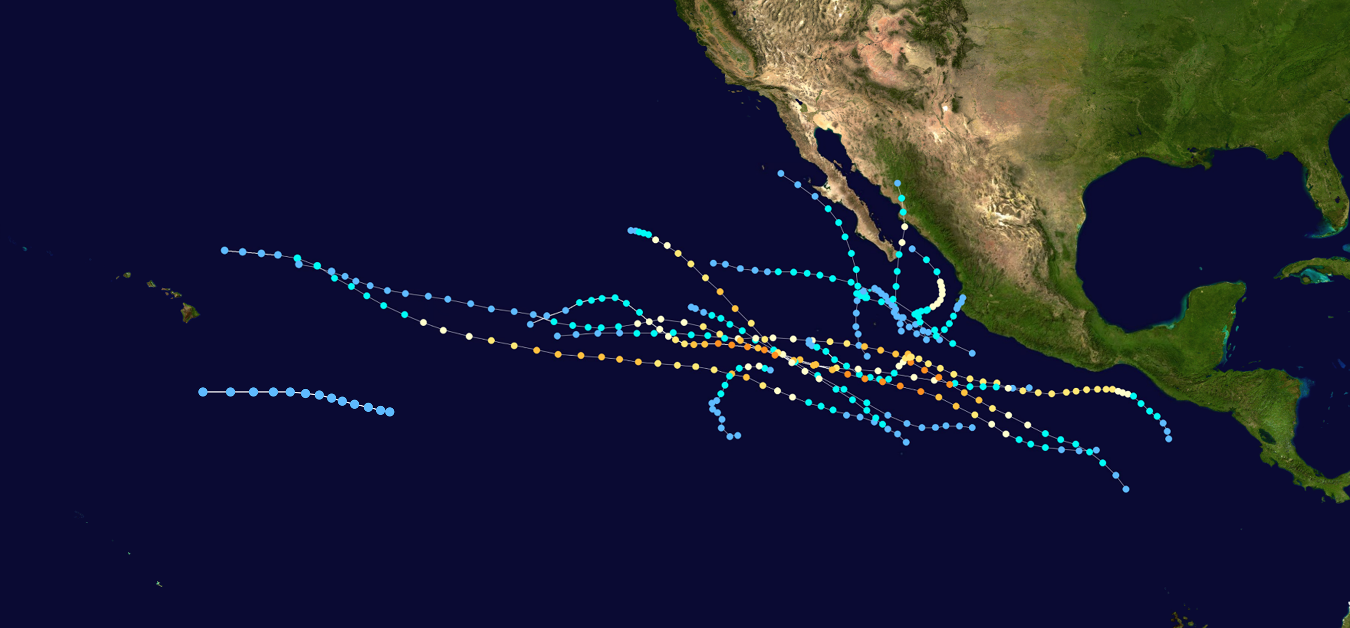 Description